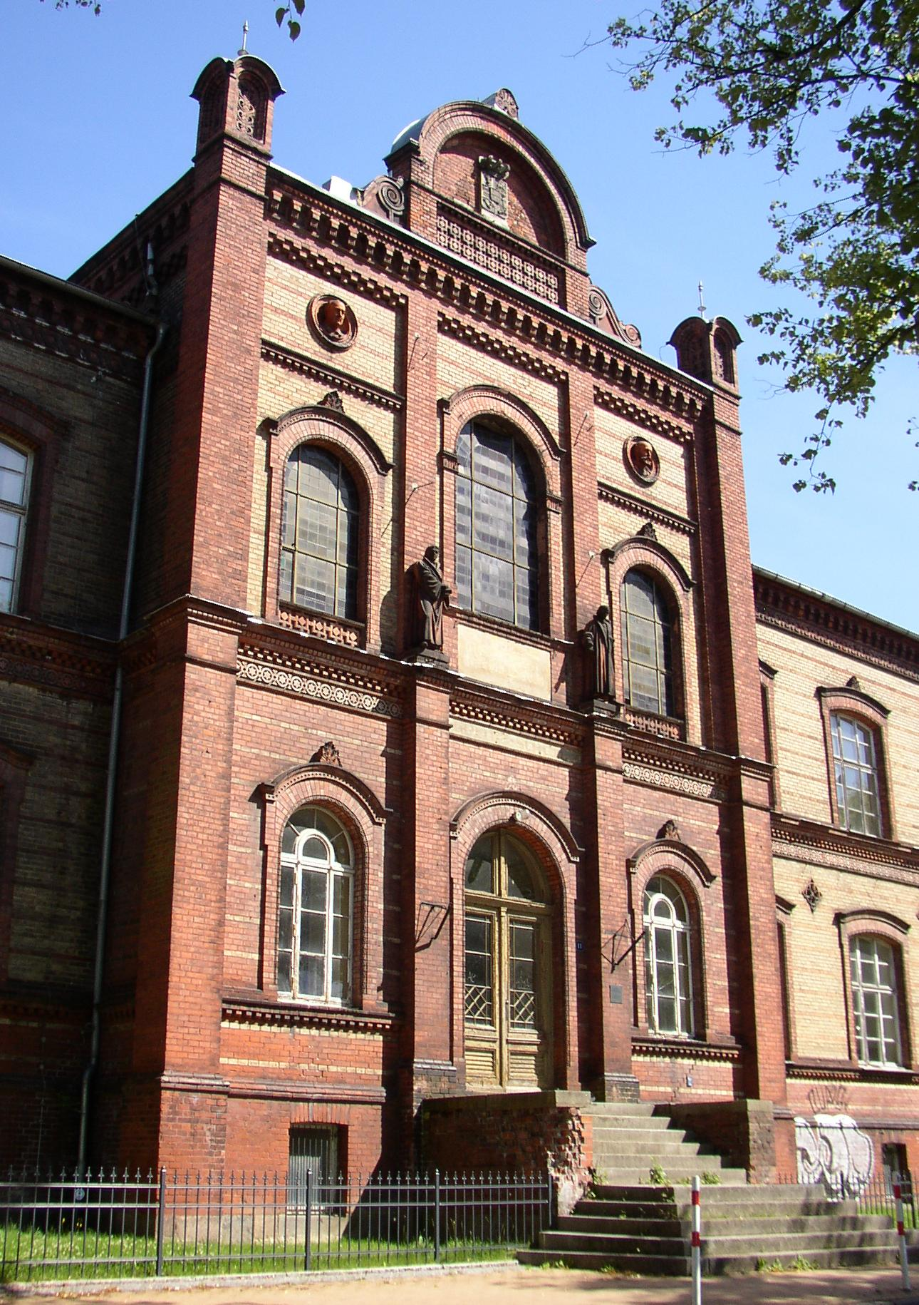 Former Fridericianum School in Schwerin in Mecklenburg-Western Pomerania, Germany - today seat of the Private University Baltic College